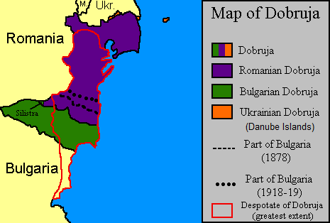 Map of Dobruja, showing what countries it belongs to today and belonged to in the past.